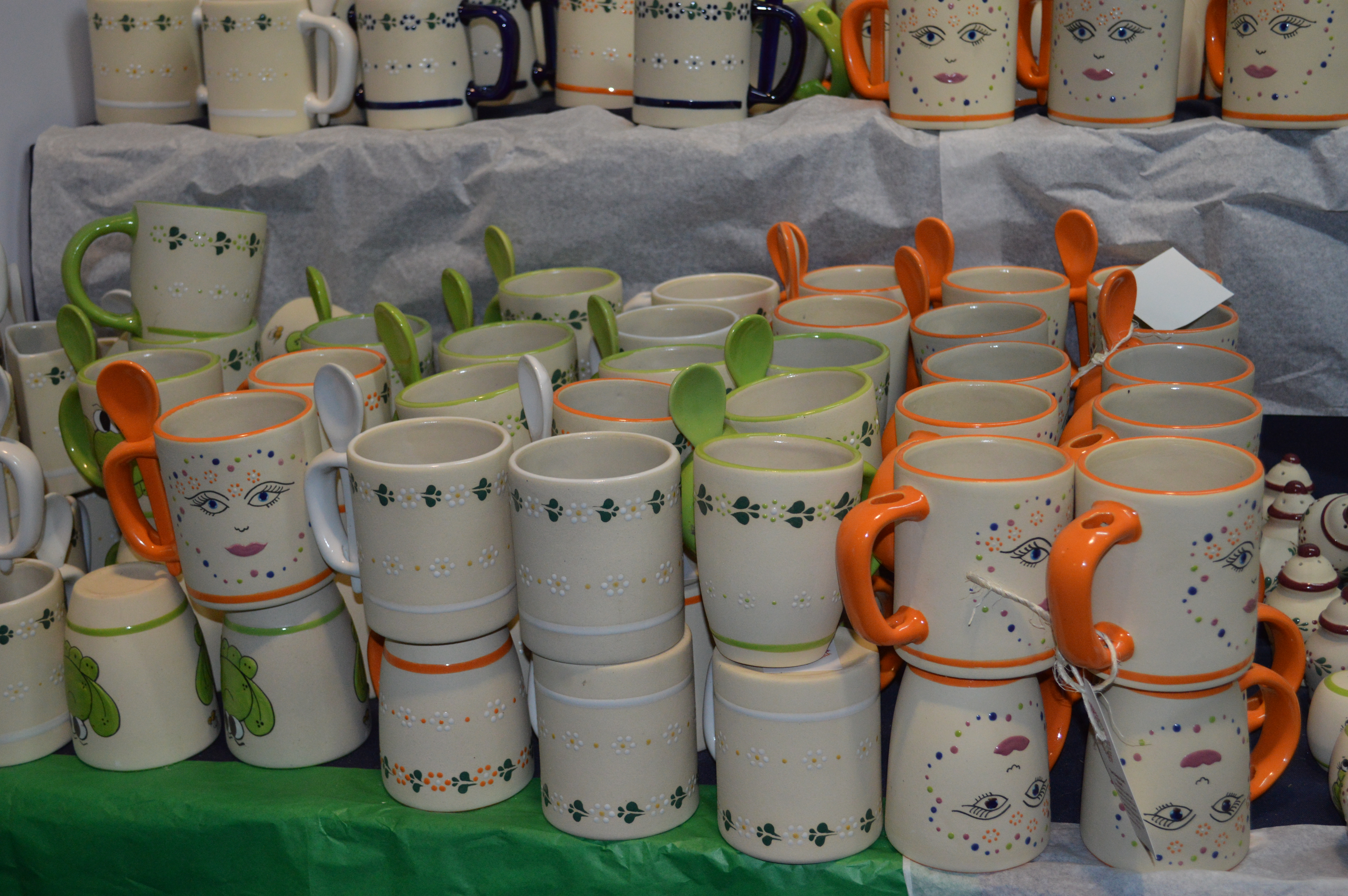 Pottery from Temascalcingo, State of Mexico on display at the Expo de los Pueblos Indígenas in Mexico City